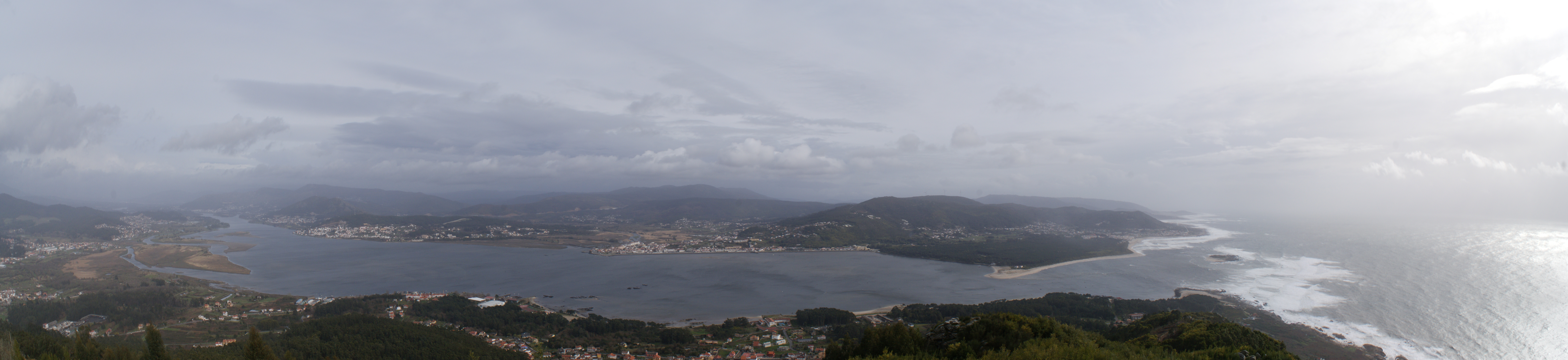 Panoramic view of the Miño river mouth, in the Spanish-Portuguese border. Photo taken from the Spanish side.